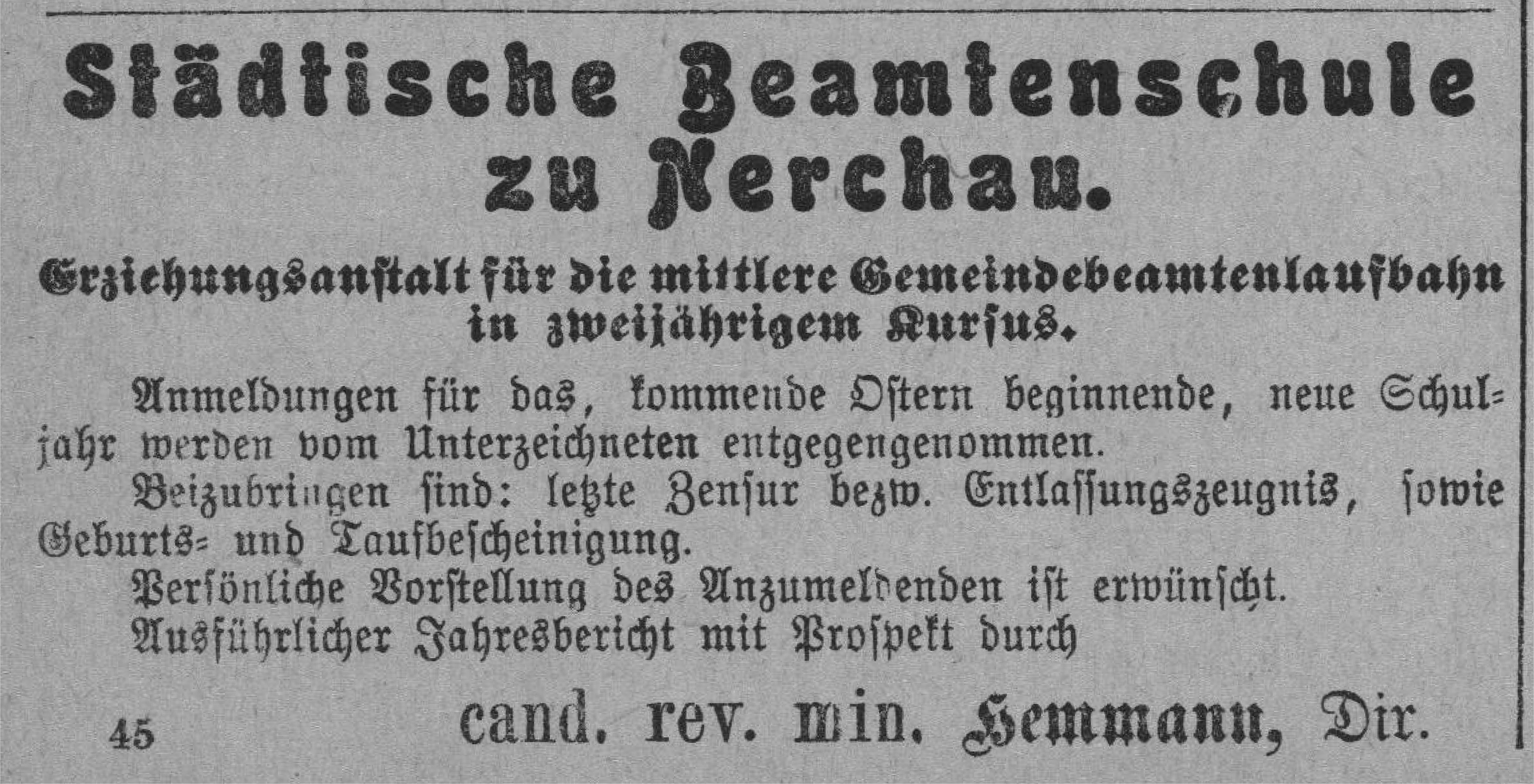 Scan from the Dresdner Journal, 1906